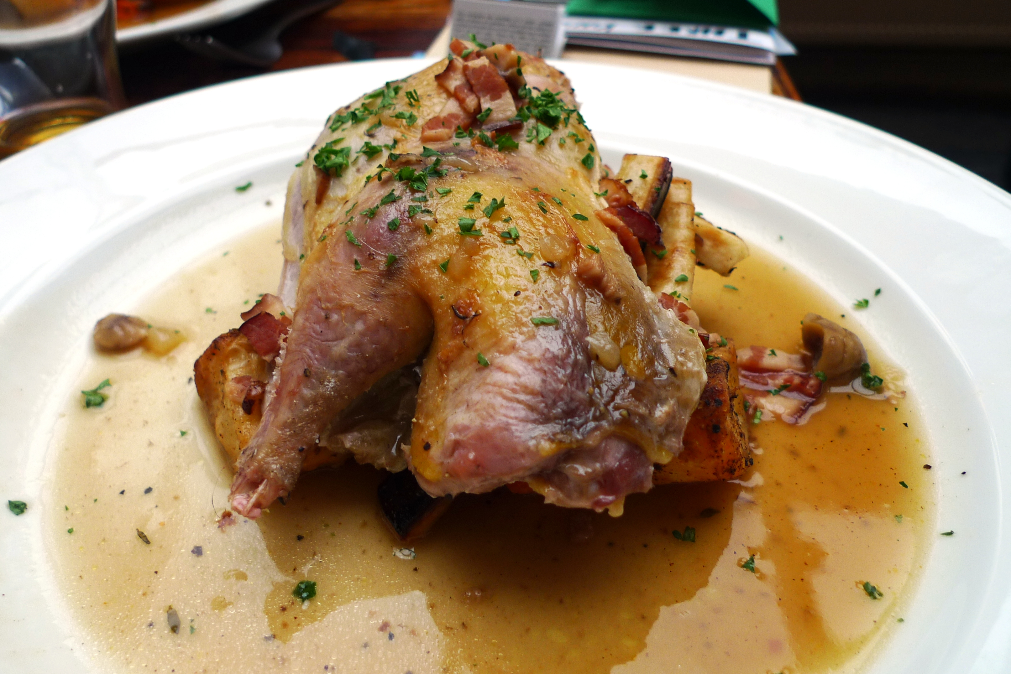 Half pheasant with trimmings (somewhat hidden in this photo), part of the Christmas menu. At The Gunmakers, Eyre Street Hill.